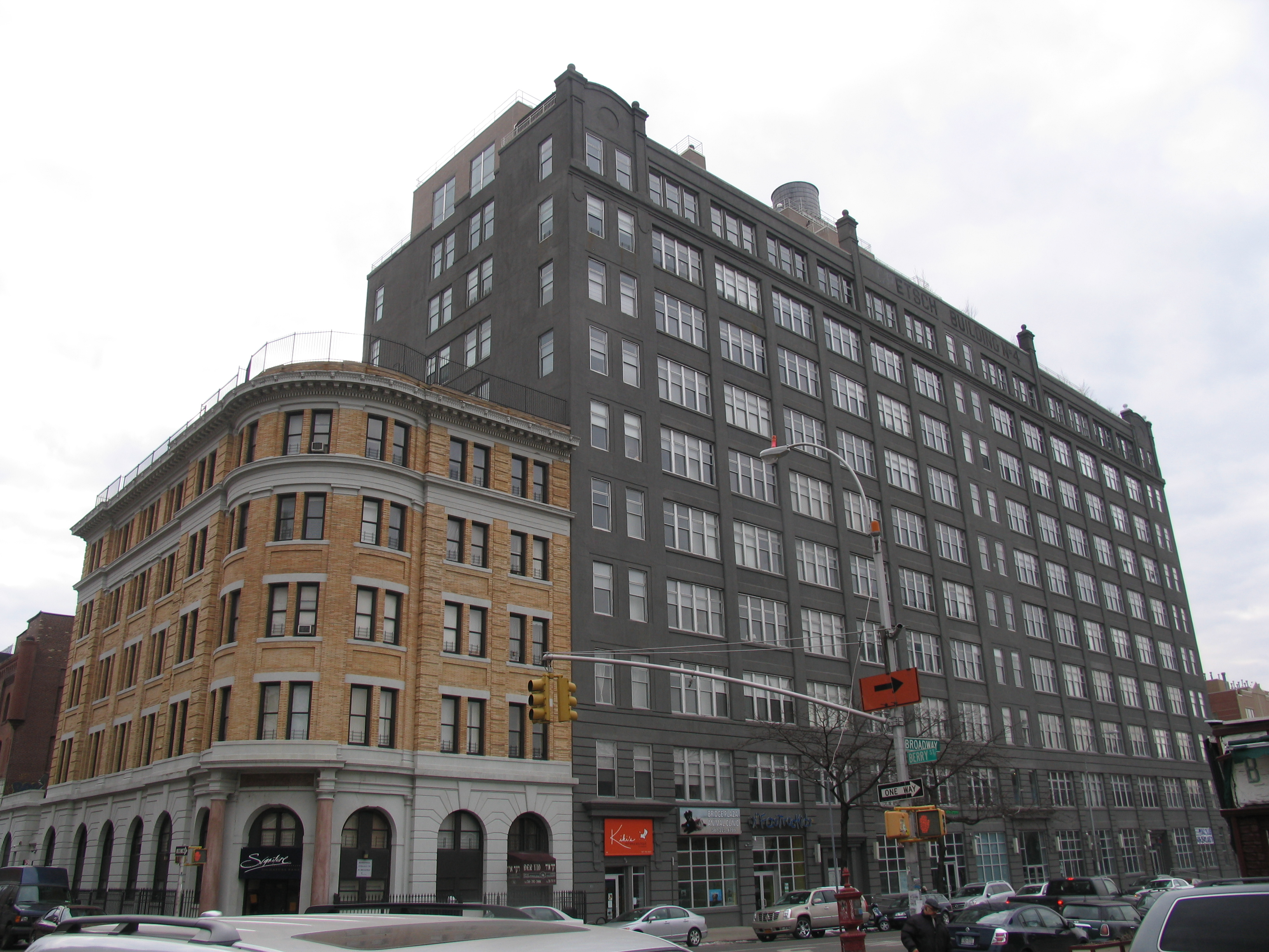 Gretsch building (manufacturer of musical instruments) in Williamsburg. It has recently been converted to condominiums.